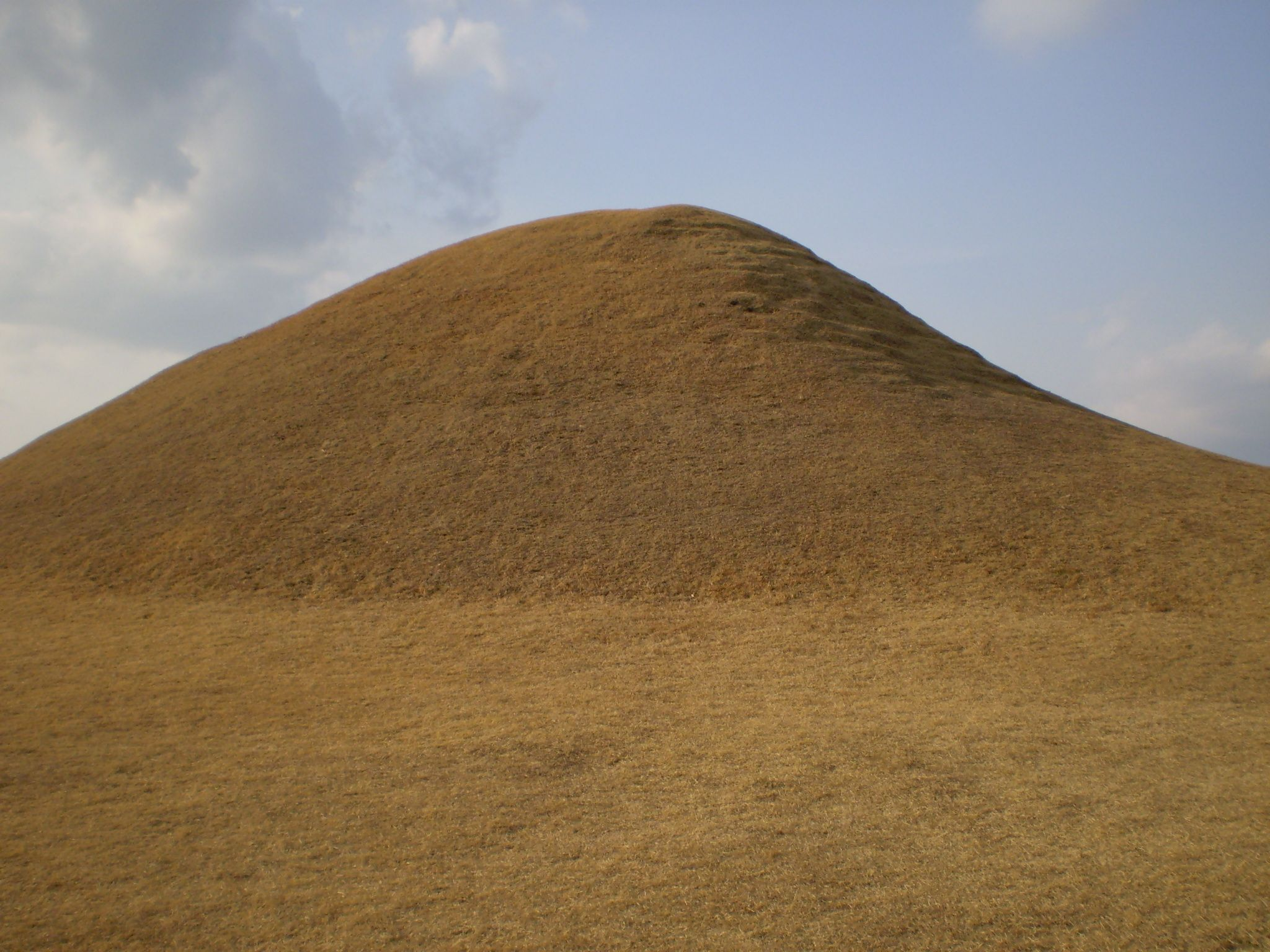 Largest of the royal tumuli of Bihwa Gaya in Changnyeong, Gyeongsangnam-do, South Korea.